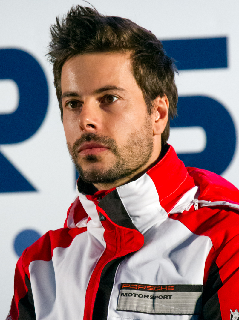 FIA World Endurance Championship 2014 Rd.5 6 Hours of Fuji: Frédéric Makowiecki (Porsche)